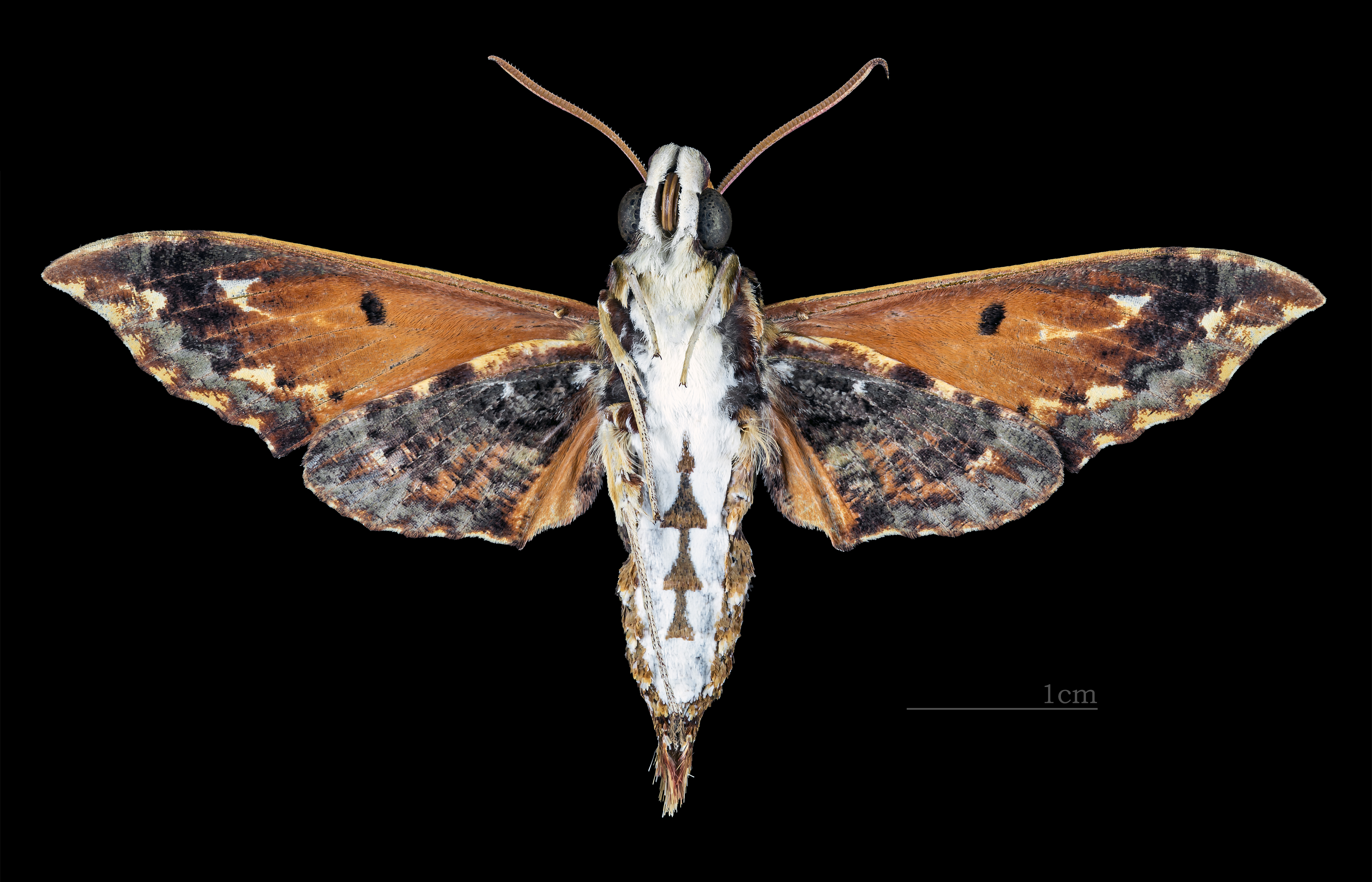 Eupanacra pulchella - △ Ventral side Collection of the Mathematician Laurent Schwartz